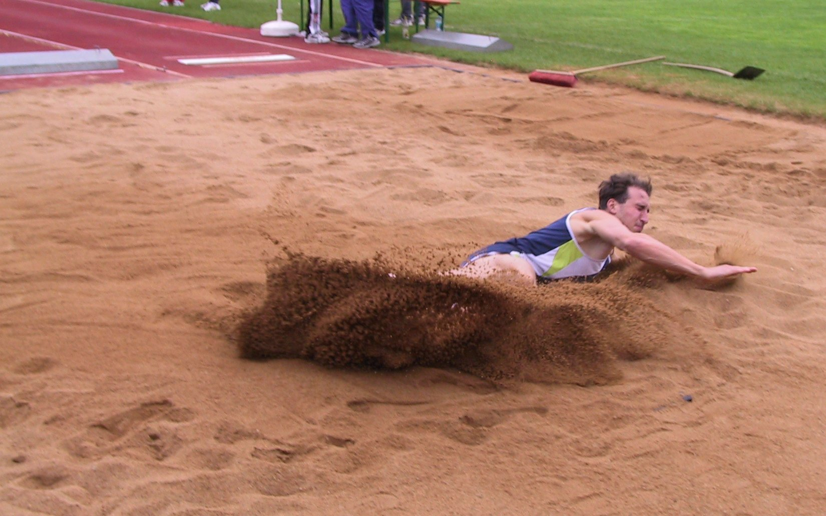 A long jump reception